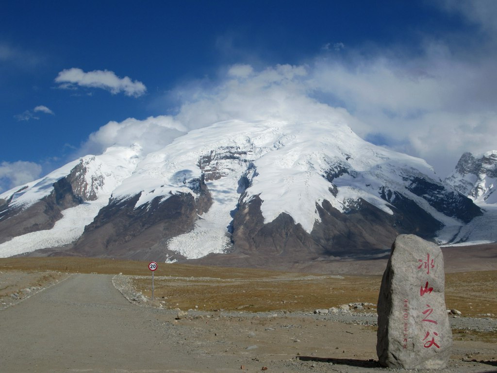 Muztagh Ata (7,509 meters) is the second highest in the Pamir Range. Muztaga Glacier Park offers visitors the chance to hike to a glacier or climb the "Father of Ice Mountains" from the Karakorum Highway.